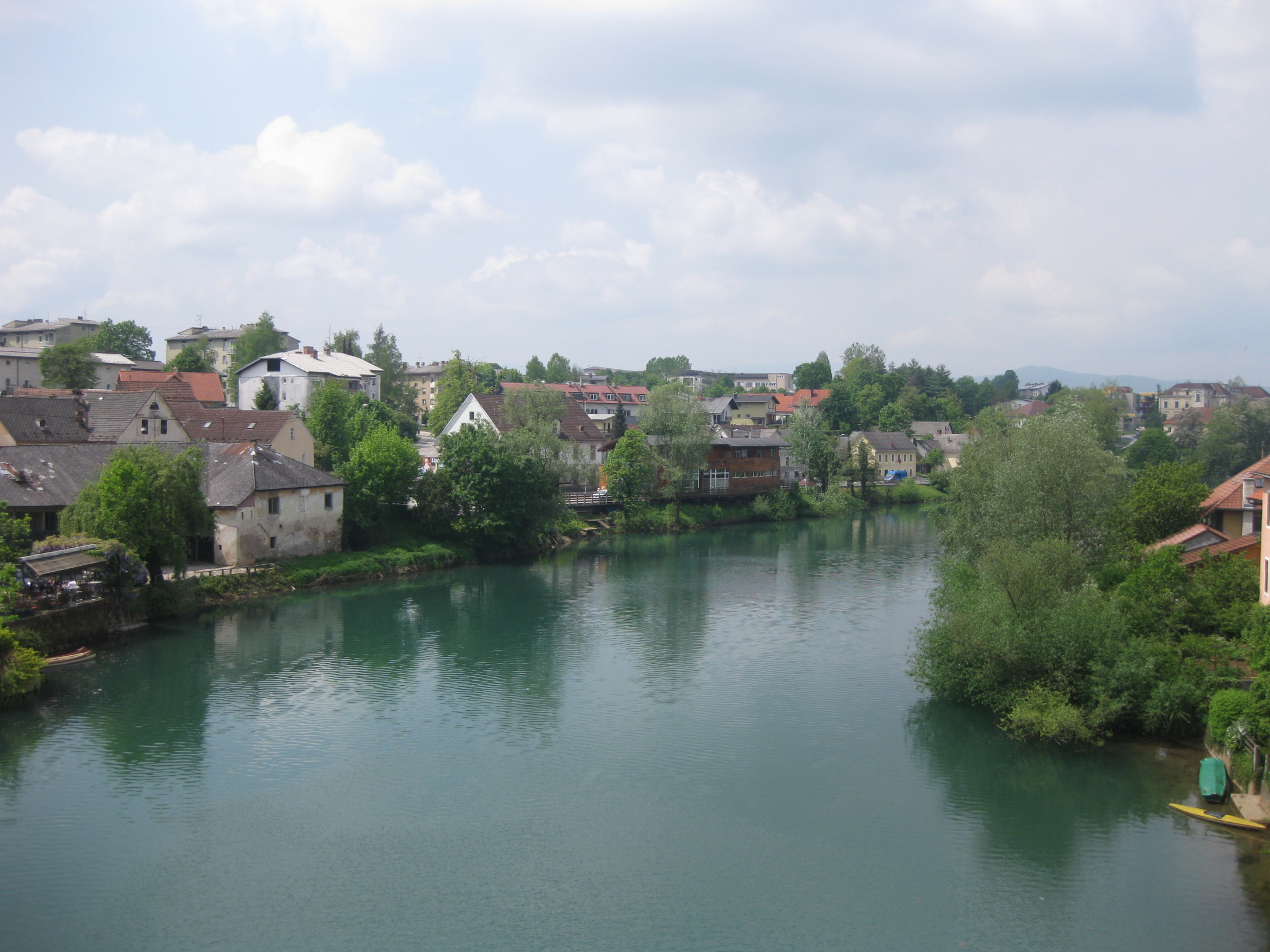 Krka river in Novo Mesto, Republic of Slovenia.